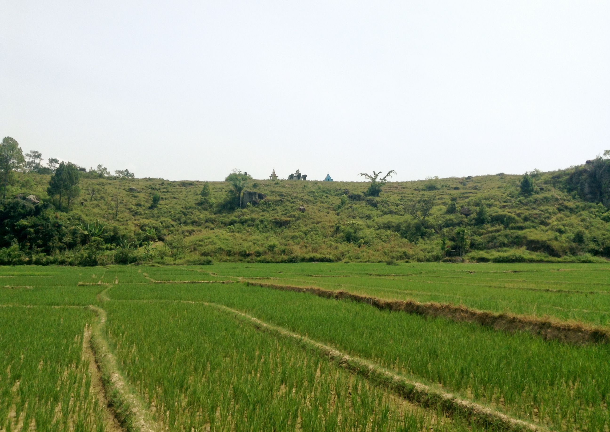 Paddy field in Simanindo, Samosir Island